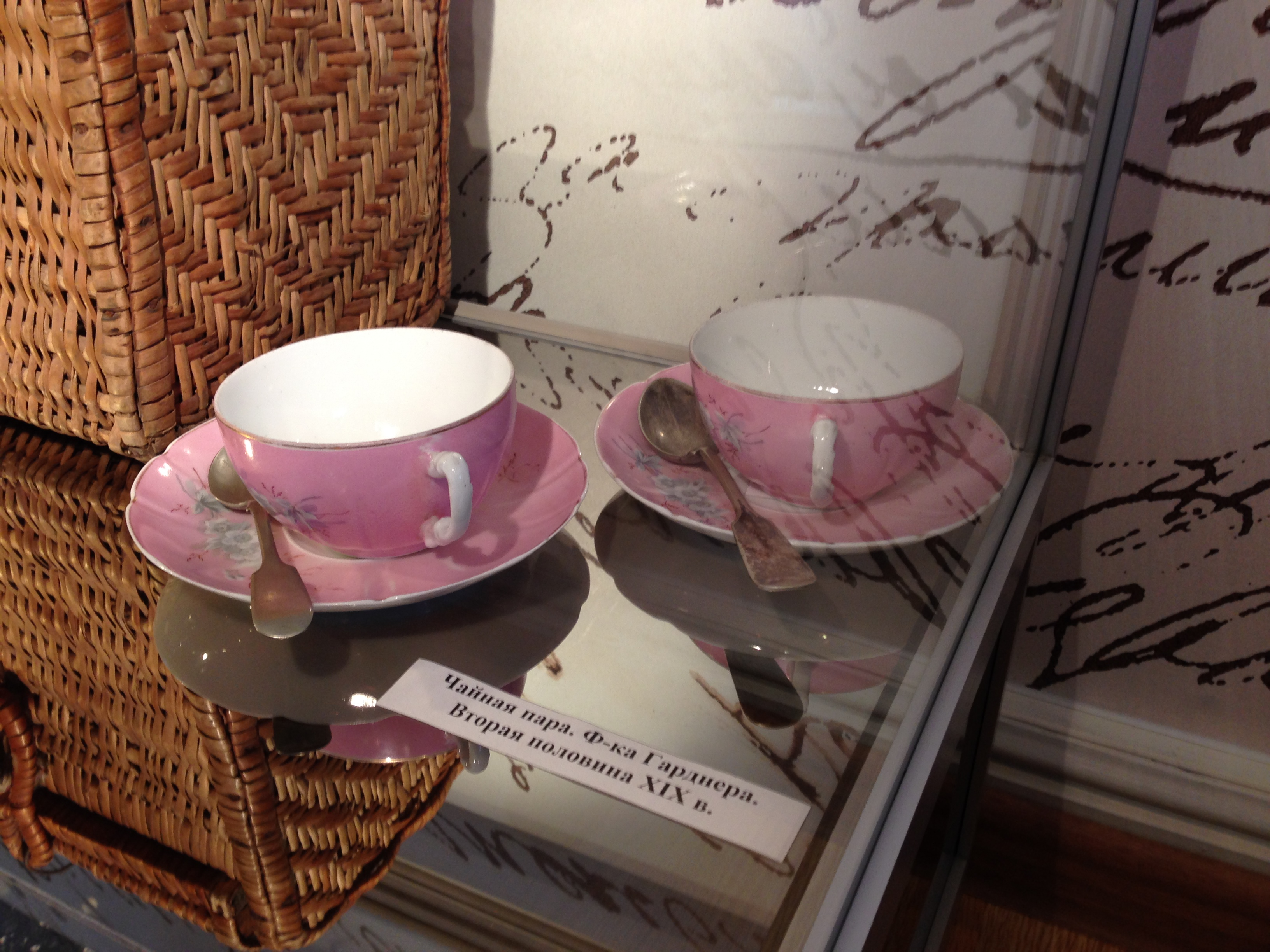 Porcelain tea set from Gardner's factory, 19 century. Leo Tolstoy's exhibition at Yasnaya Polyana railway station, Tula.